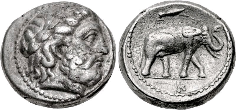 SELEUKID KINGS of SYRIA. Seleukos I Nikator. 312-281 BC. AR Stater (22mm, 16.88 g, 12h). Susa mint. Struck circa 288/7 BC. Head of Zeus right, wearing laurel wreath / Elephant advancing right; above, spearhead right; K below.